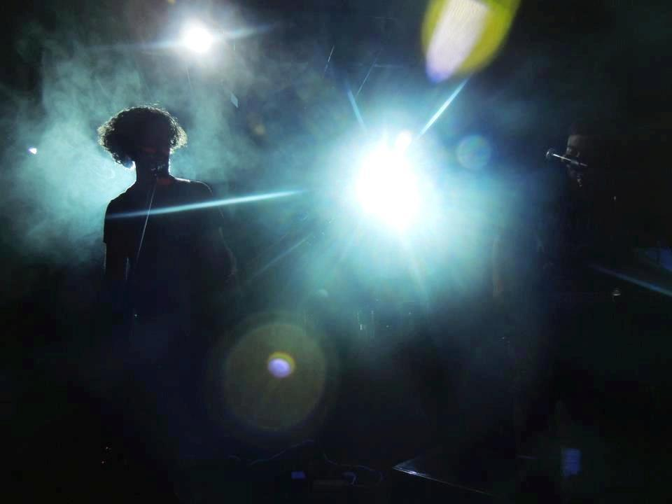 Photo taken from concert